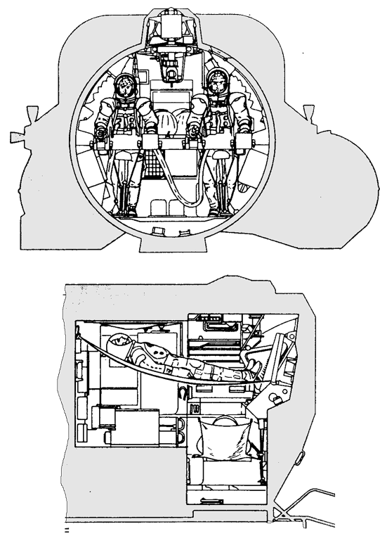 Apollo Lunar Module (LM) : Astronaut flight position and rest position